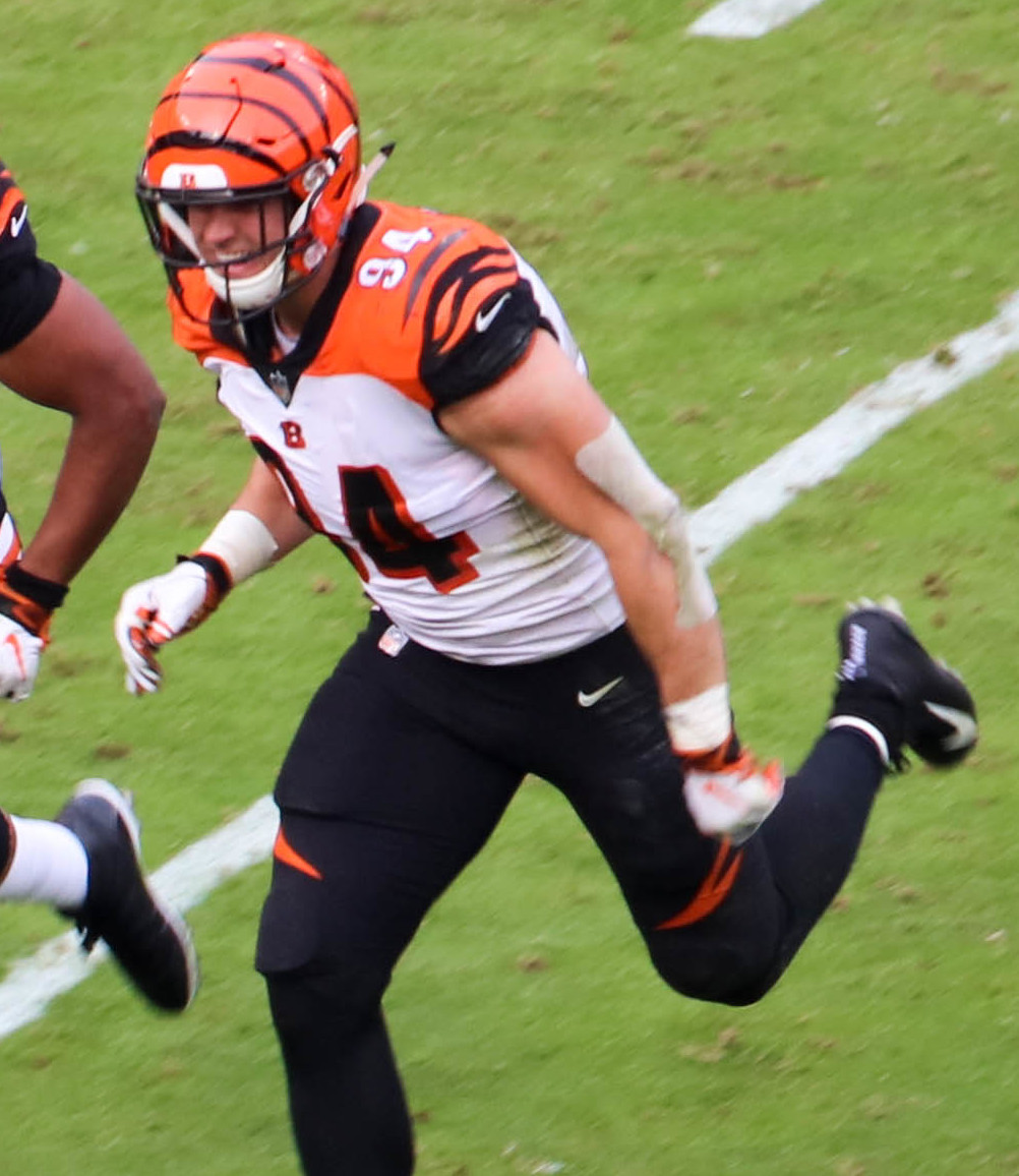 Lamar Jackson of the Baltimore Ravens runs the ball against the Cincinnati Bengals during a 2018 game at M&T Bank Stadium in Baltimore.